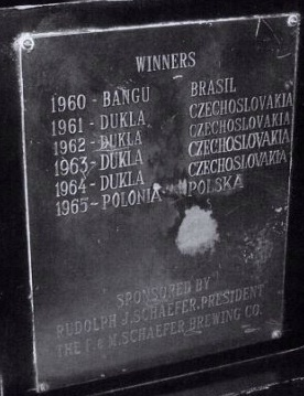 Foto tirada na exposição pública do Polônia Bytom.